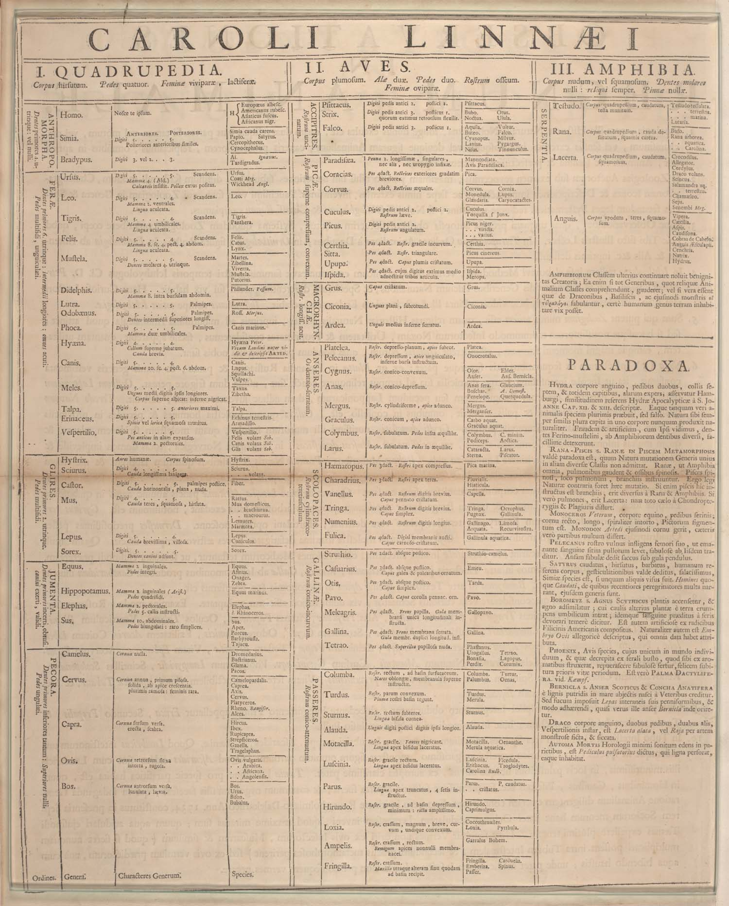 Carl von Linnes hovedærk